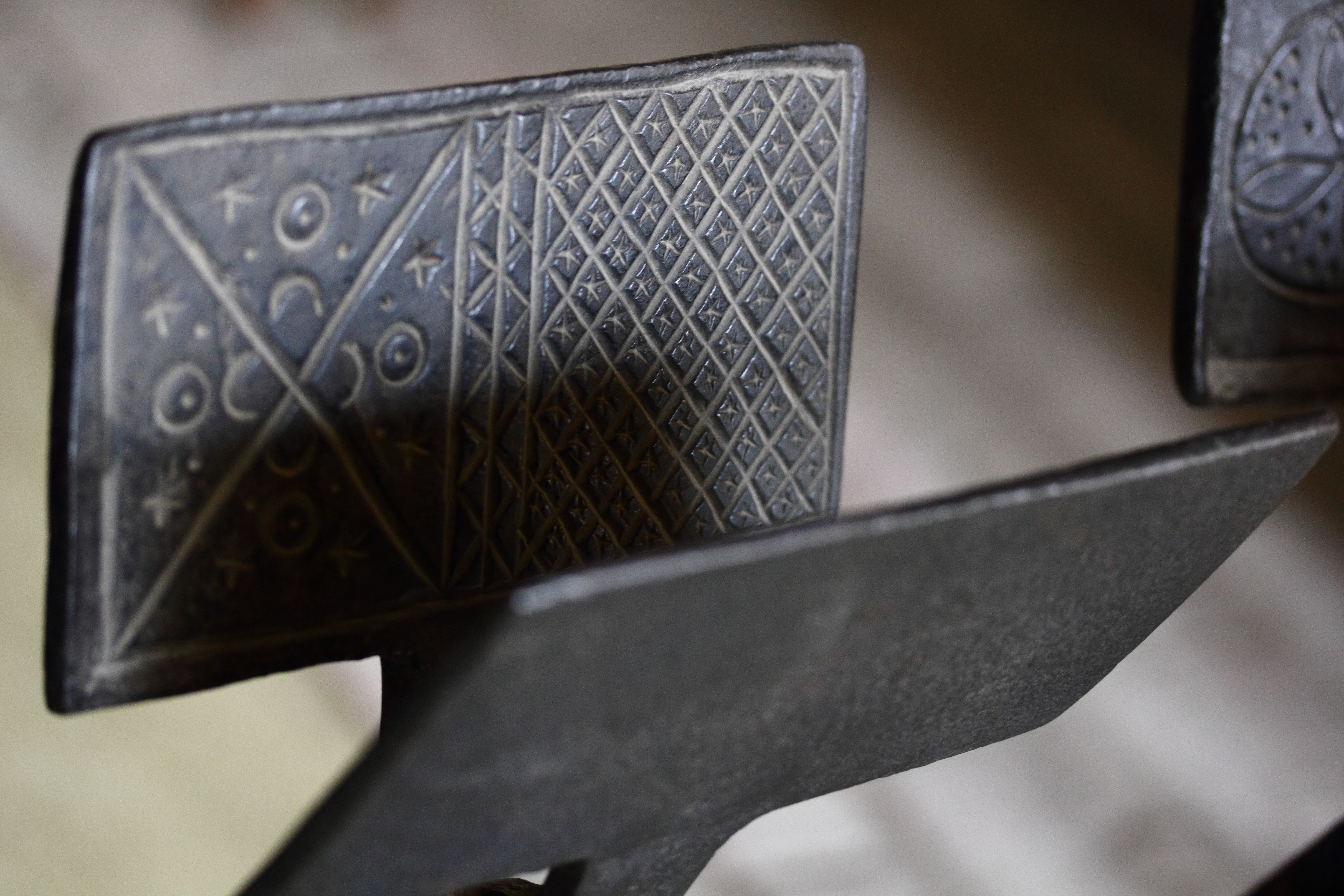 Waffle iron, Musée Lorrain (Popular Arts and Traditions Museum)